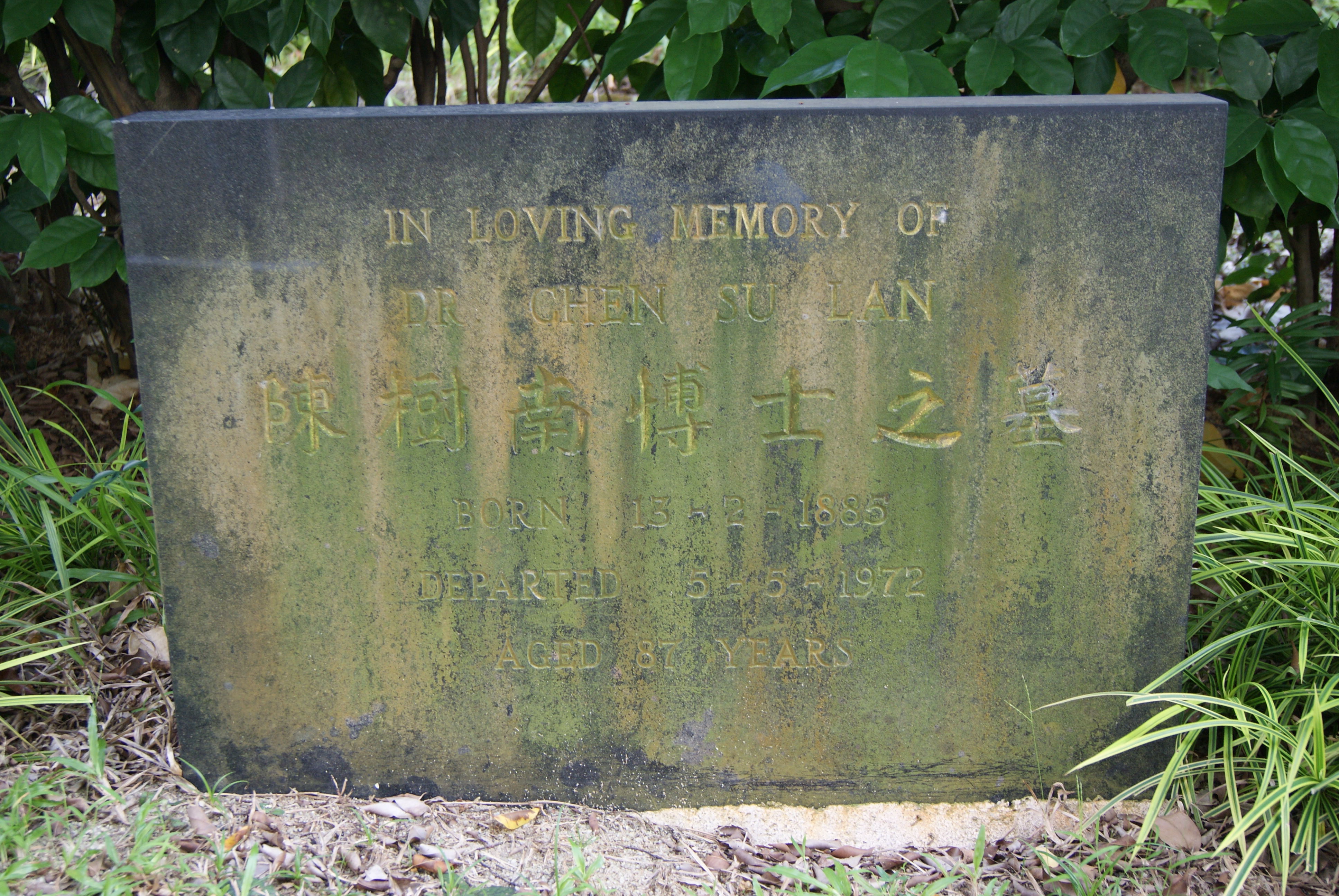 Gravestone of Dr. Chen Su Lan (13 February 1885 – 5 May 1972) at Bidadari Garden at 10 Vernon Park, Singapore 367812. Chen was an anti-opium fighter, philanthropist and social reformer. He served in a number of important committees including the Tan Tock Seng Hospital Management Committee, the Central Midwives Board and the Council of the King Edward VII College of Medicine. He also founded the Chinese Young Men's Christian Association (YMCA) in 1945 and the Chen Su Lan Trust in 1947, and was instrumental in setting up Singapore Anti-Tuberculosis Association clinics.